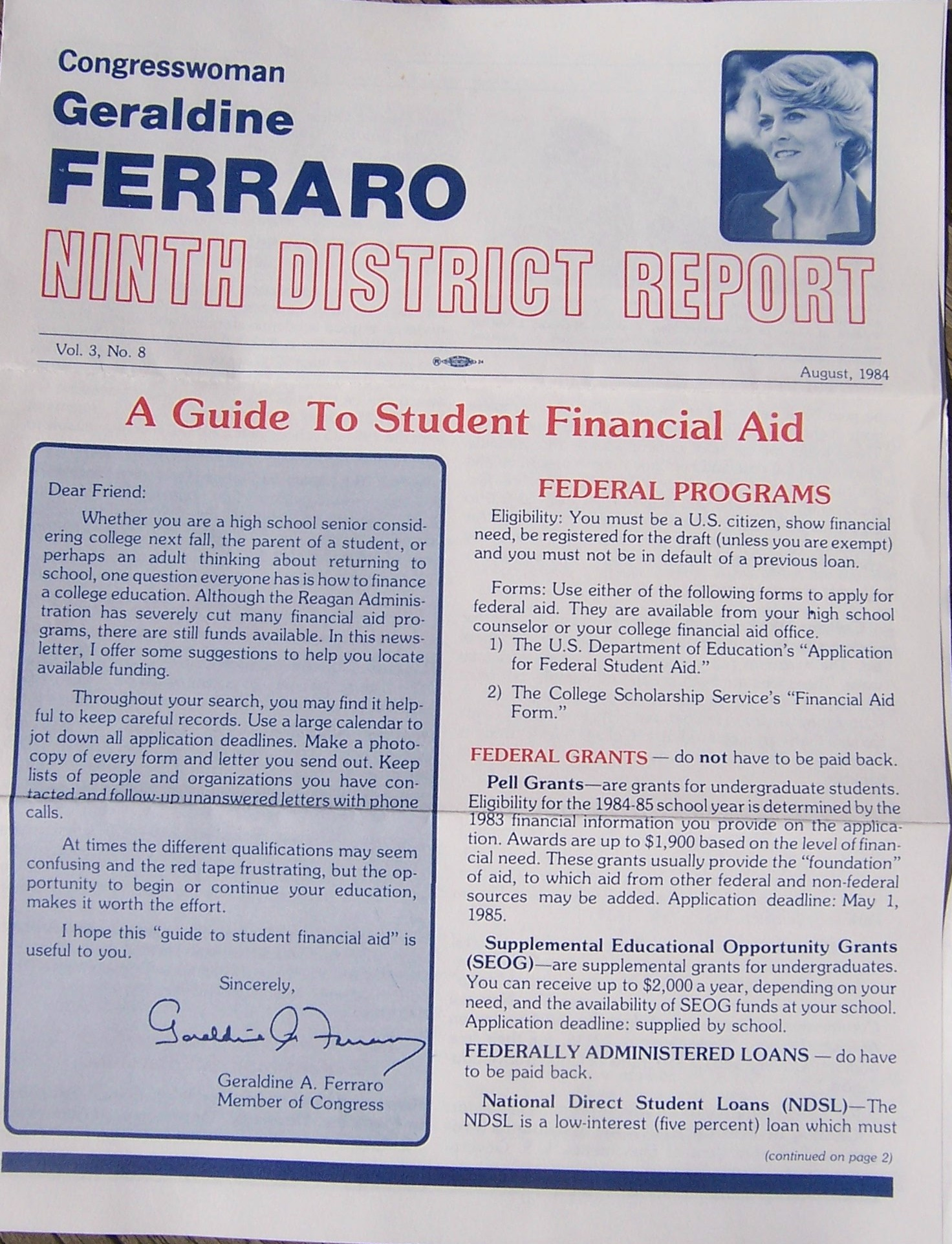 Representative Geraldine Ferraro's Ninth District Report, Vol. 3, No. 8, August 1984.